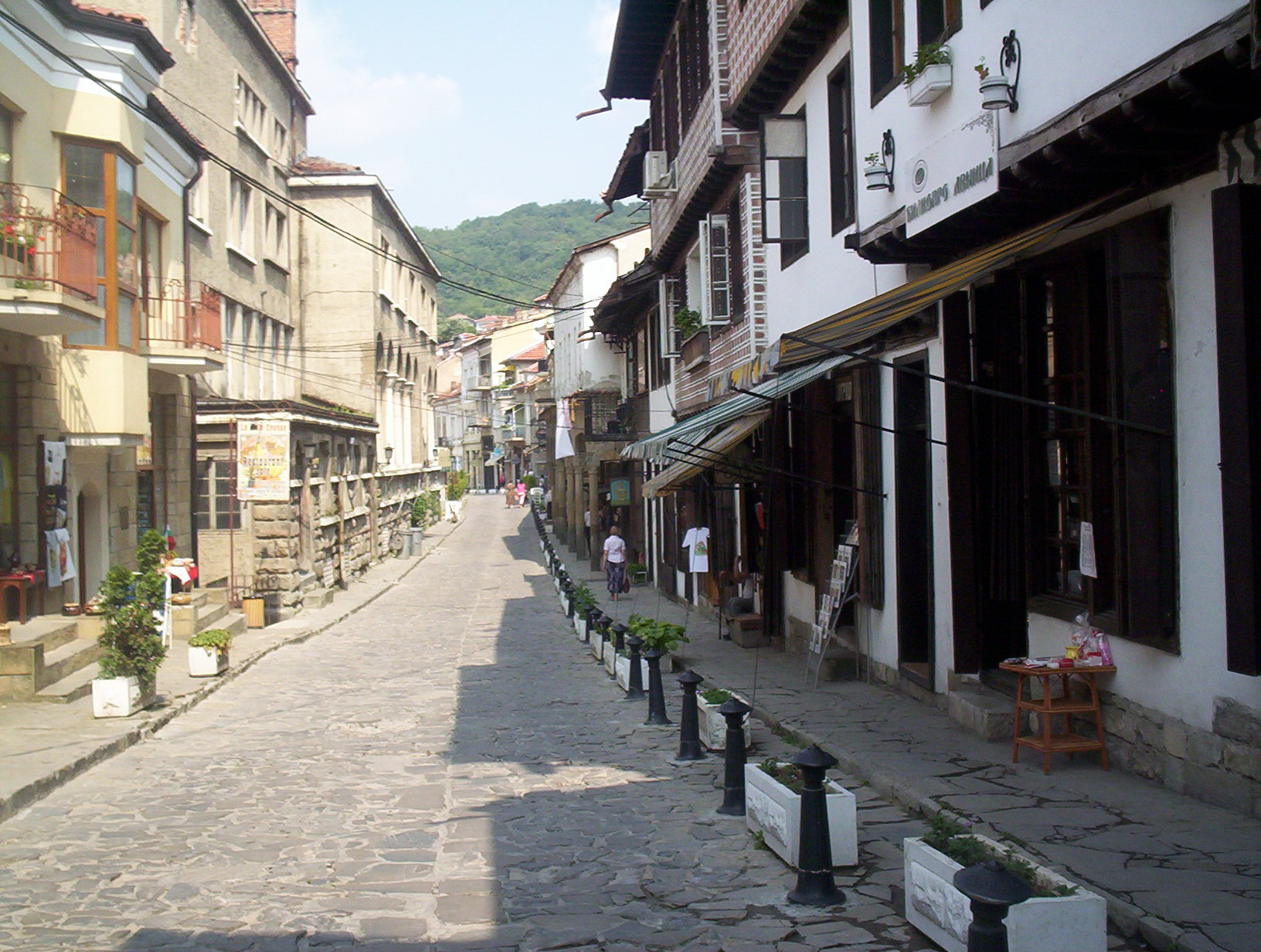 Veliko Tarnovo